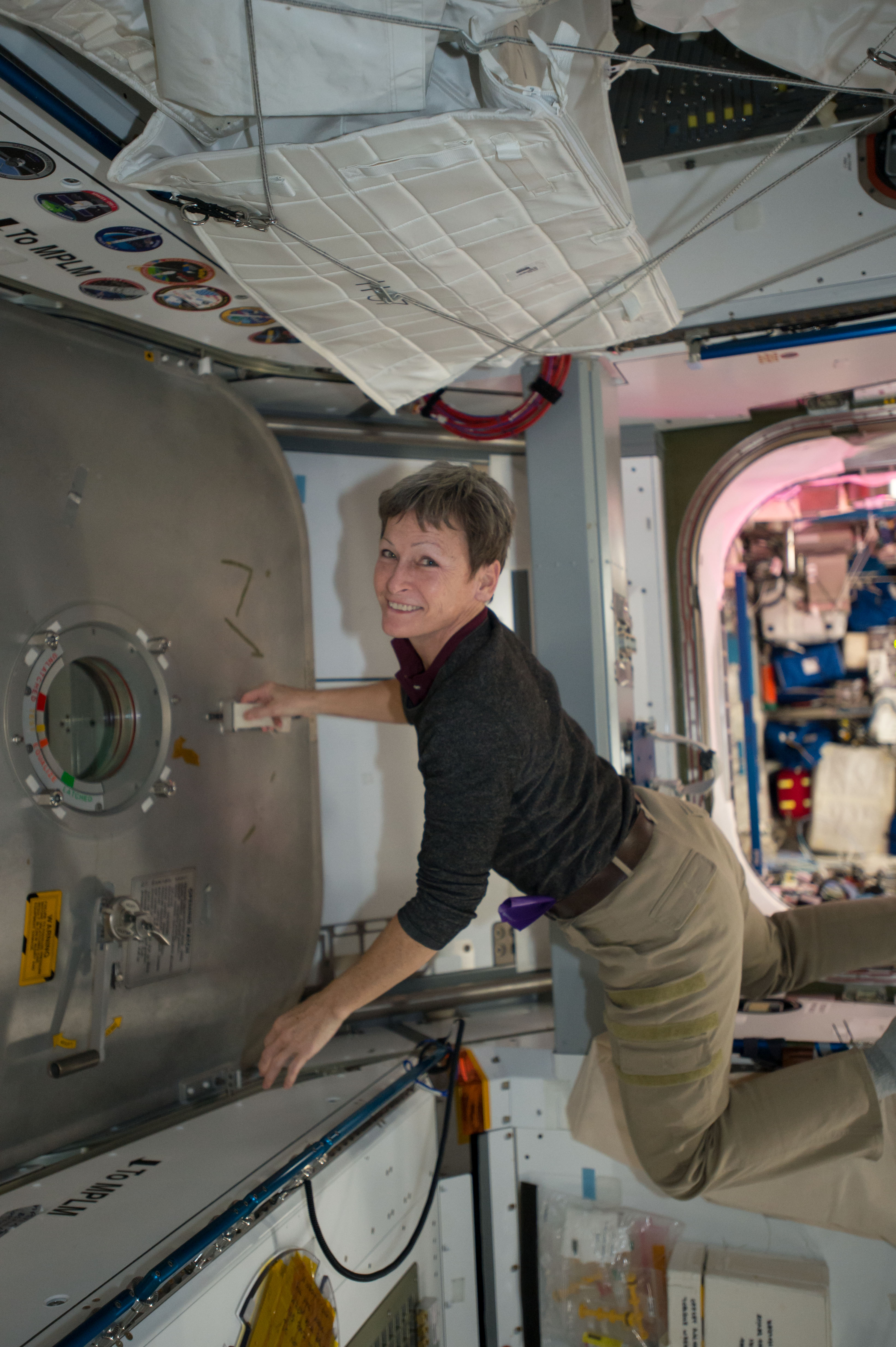 Expedition 50 crew member Peggy Whitson of NASA works inside the Harmony module to open the hatchway to the Japanese HTV-6 cargo craft.HTV-6 launched from the Tanegashima Space Center in southern Japan on Friday, Dec. 9 and arrived at the space station on Tuesday, Dec. 13. The vehicle was loaded with more than 4.5 tons of supplies, water, spare parts and experiment hardware for the six-person station crew, including six new lithium-ion batteries and adapter plates that will replace the nickel-hydrogen batteries currently used on the station to store electrical energy generated by the station’s solar arrays.